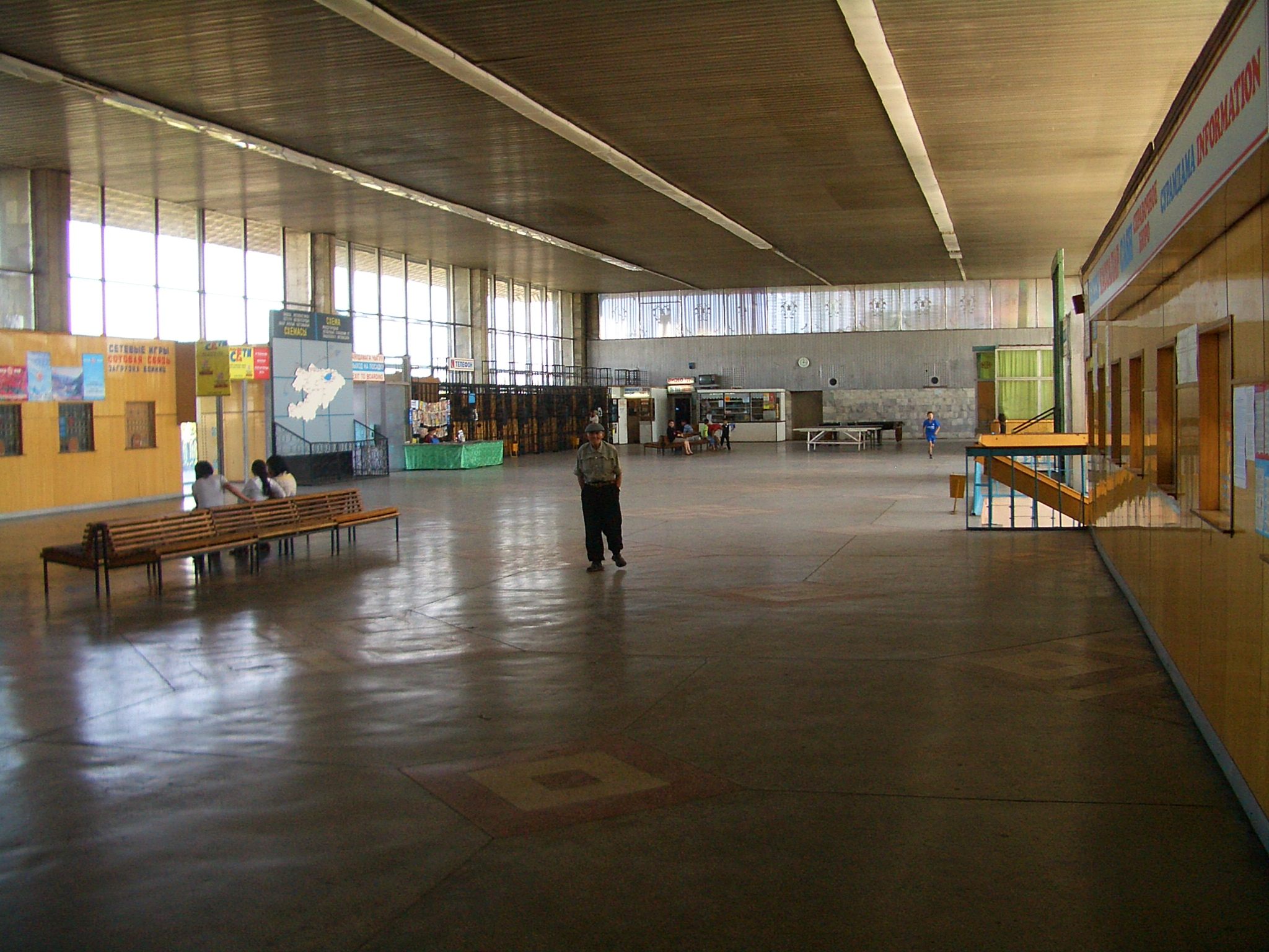 in the semi-deserted cavernous main hall of Bishkek's West (New) Bus Terminal.